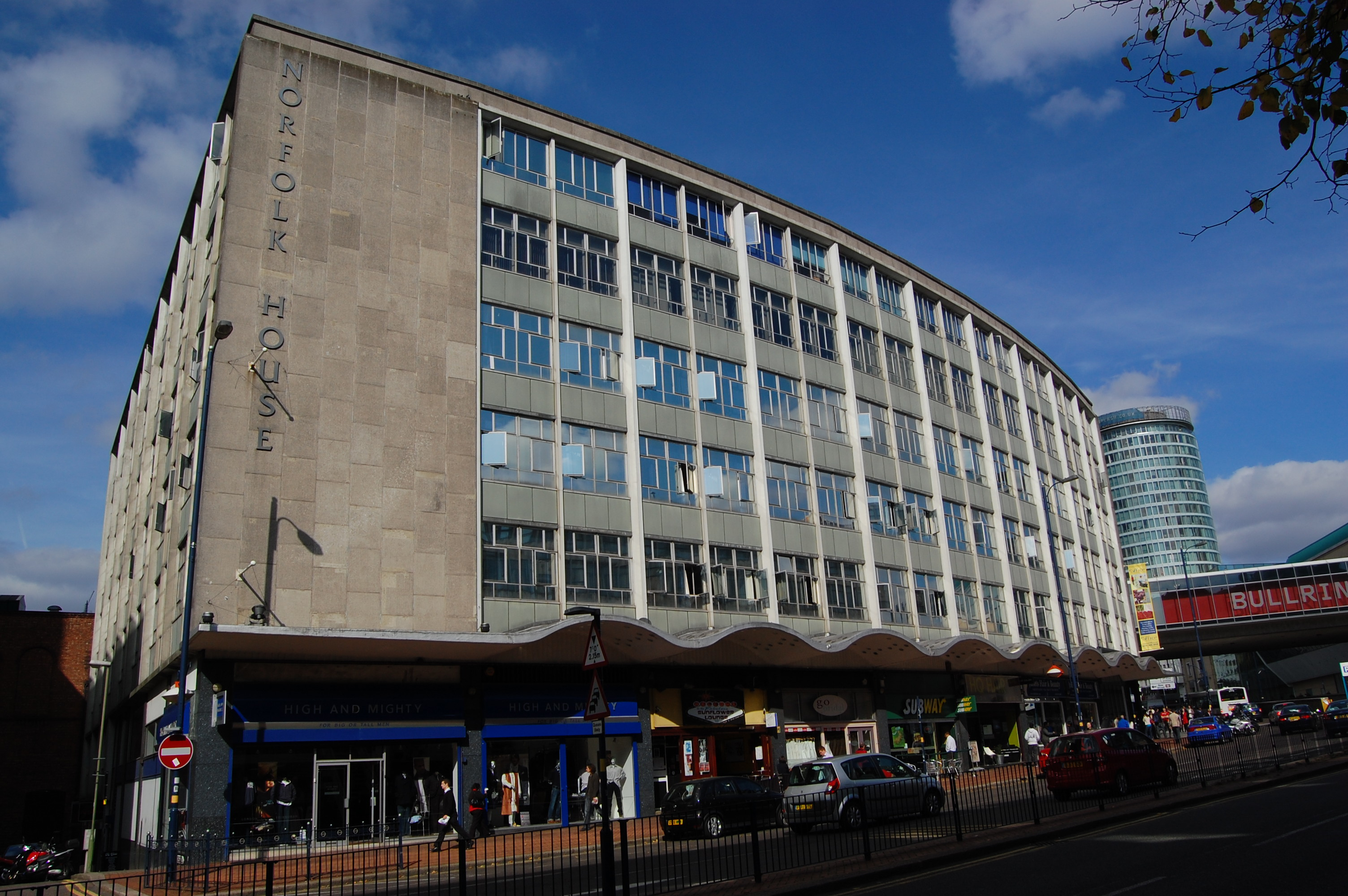 Norfolk House (1959), Birmingham, England (Architect: Archibald Hurley Robinson).